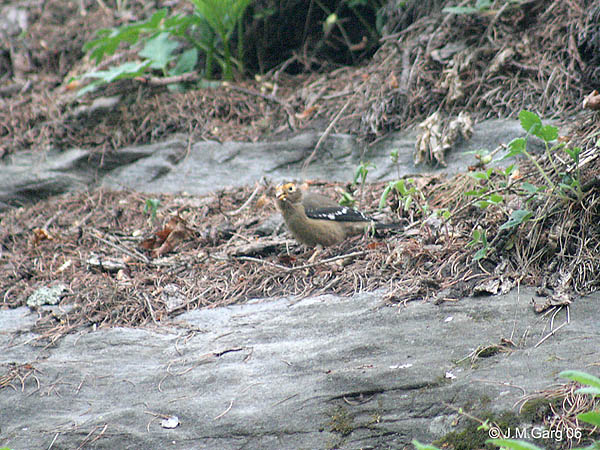 Spectacled Finch (Callacanthis burtoni) in Kullu District of Himachal Pradesh, India.